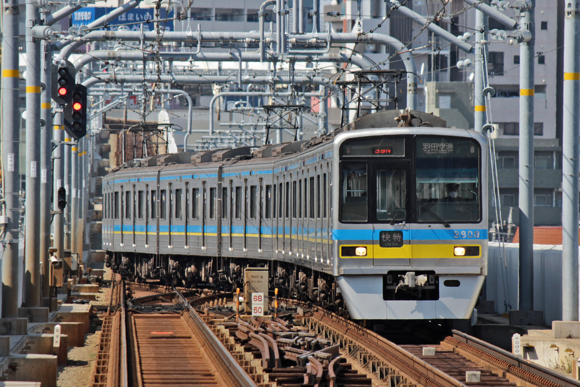 Chiba New Town Railway 9800 series EMU set 9808 approaching Keikyu Kamata Station